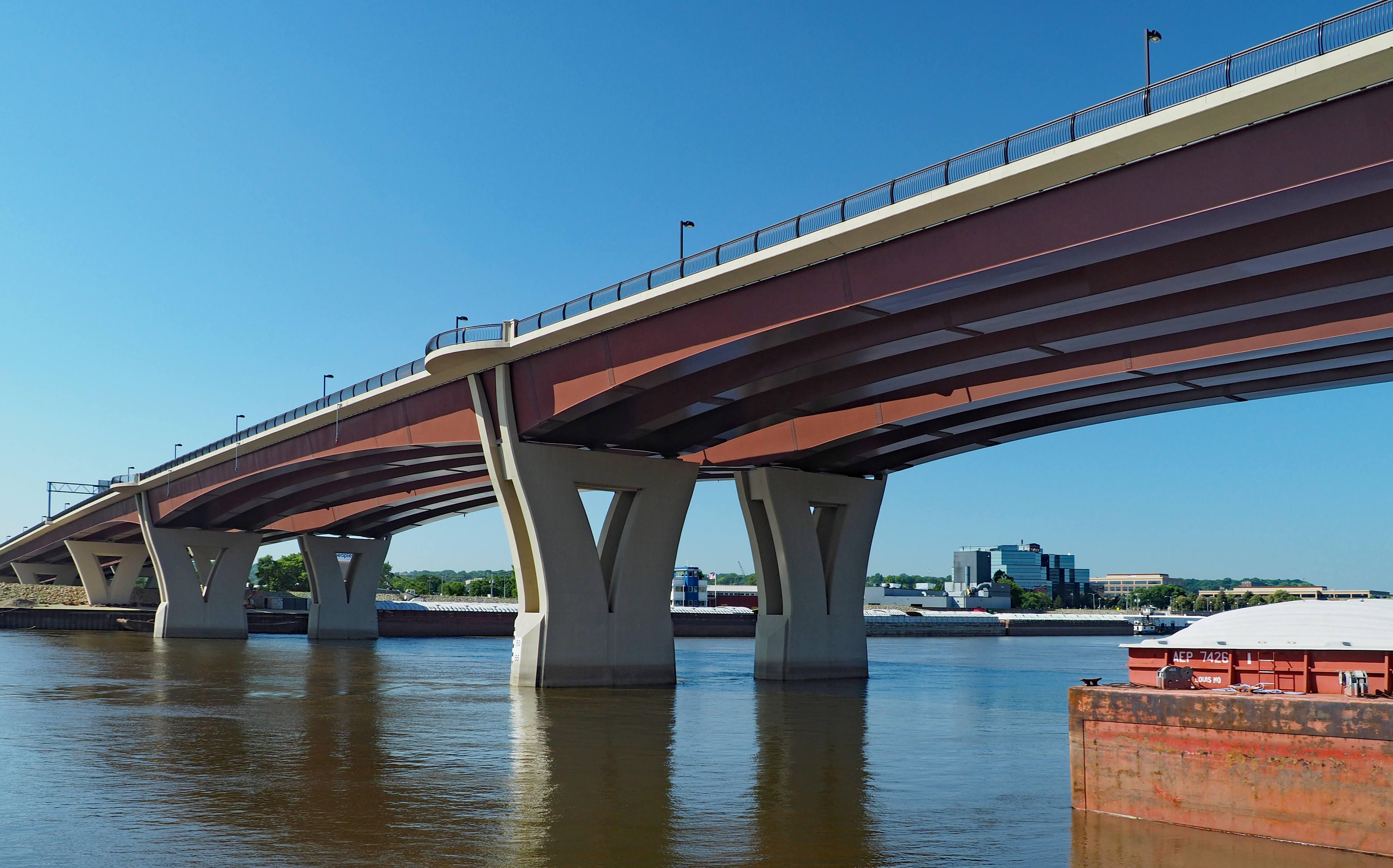 The Lafayette Bridge carrying U.S. Route 52 over the Mississippi River, viewed from the north from Lower Landing Park, St Paul, Minnesota, USA.